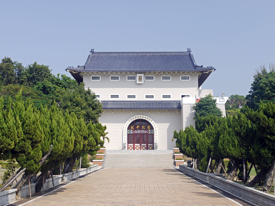 Military Memorial Park中文（台灣）: 台中軍人忠靈祠